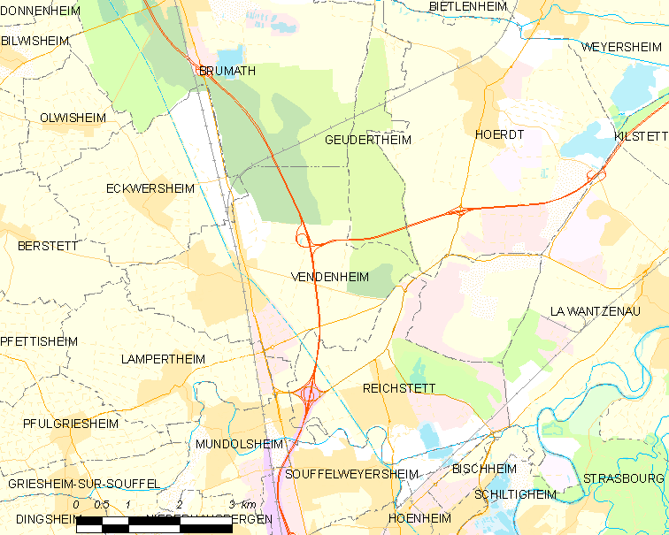 Map of French municipality